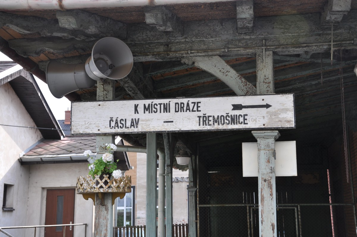 station Čáslav, Czech republic